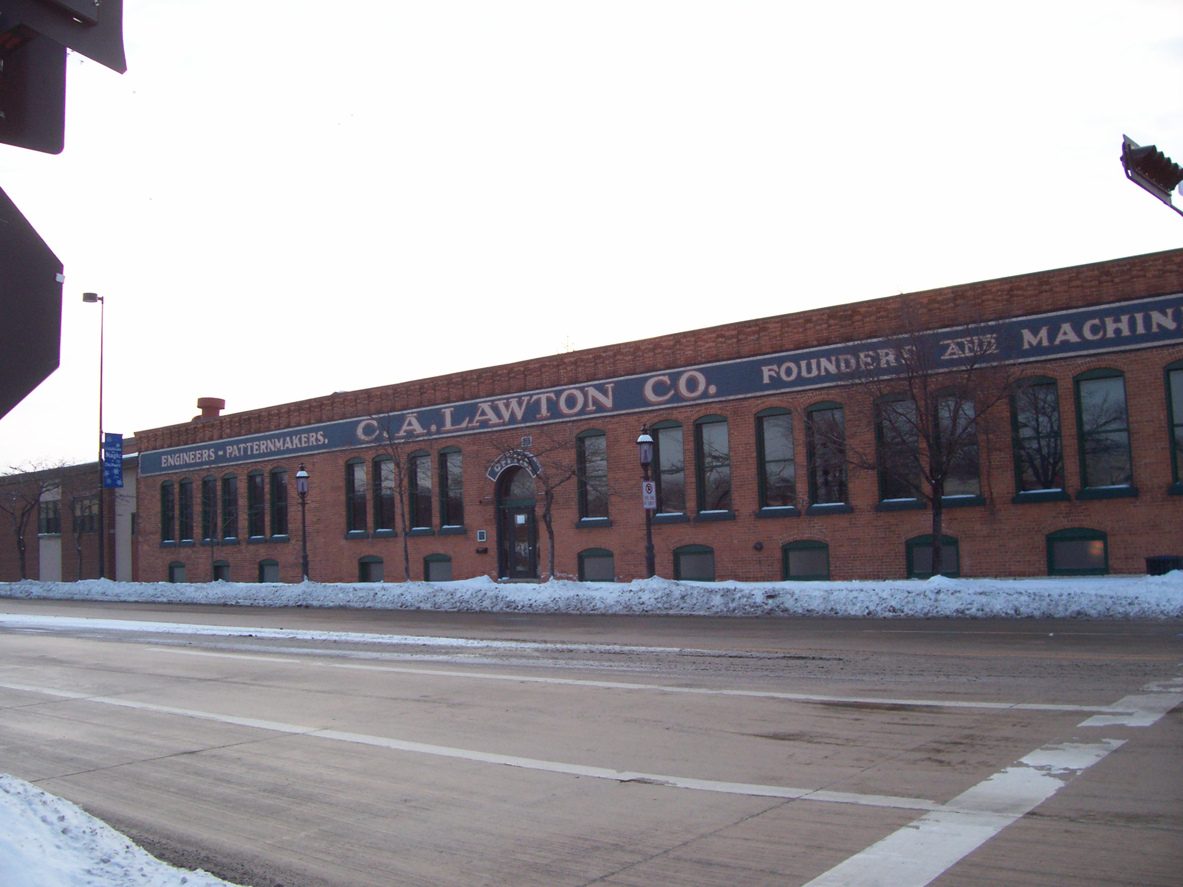 The C. A. Lawton Company in De Pere, Wisconsin, listed on the National Register of Historic Places.